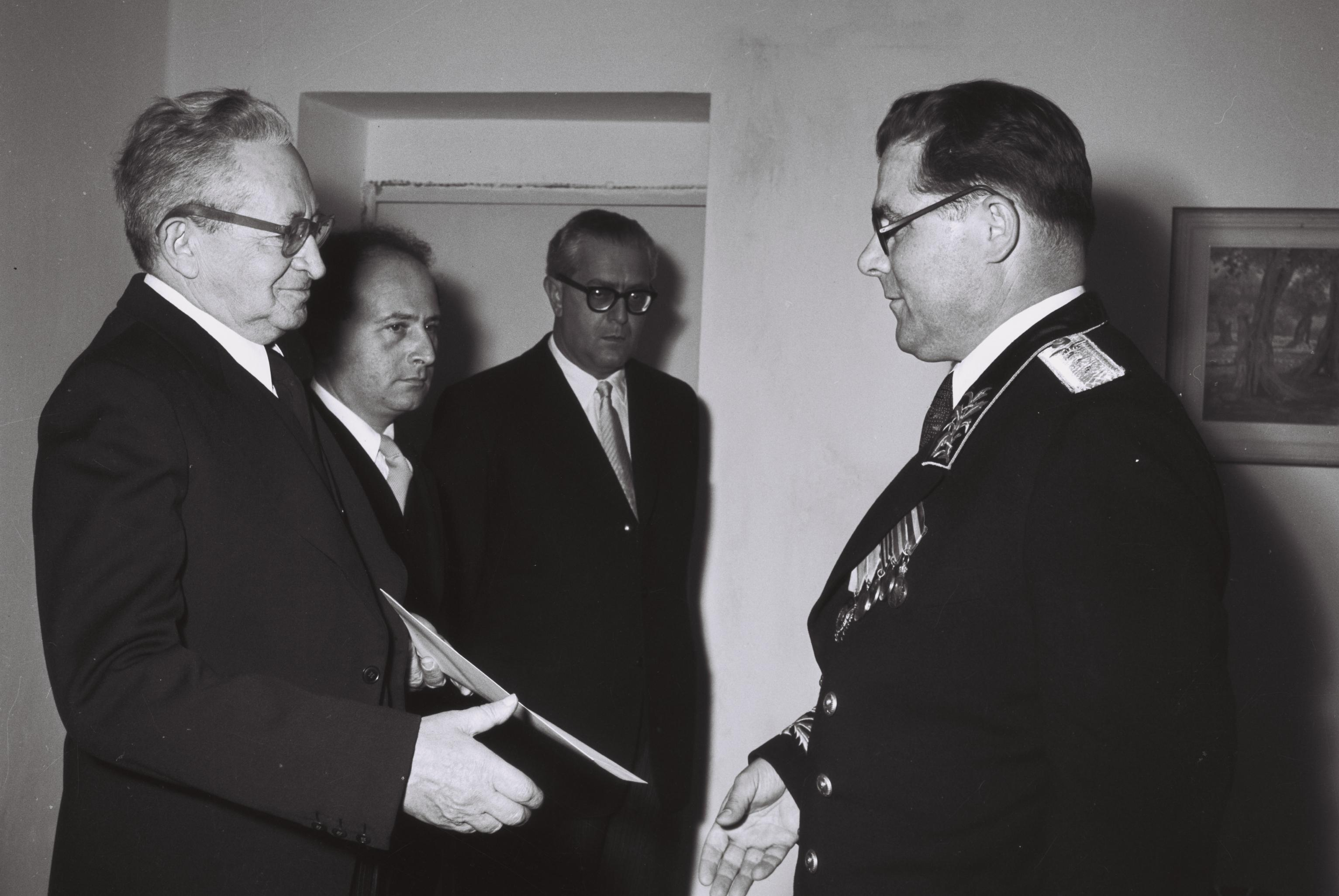 PRESIDENT YITZHAK BEN ZVI RECEIVES SOVIET AMB. ALEXANDER N. ABRAMOFF LETTER OF ACCREDITATION IN HIS OFFICE,JERUSALEM.